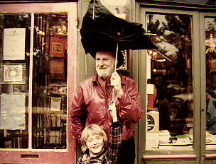 Poet Lawrence Ferlinghetti and young Sylvia Whitman in front of "Shakespeare and Company" bookshop in Paris, France.